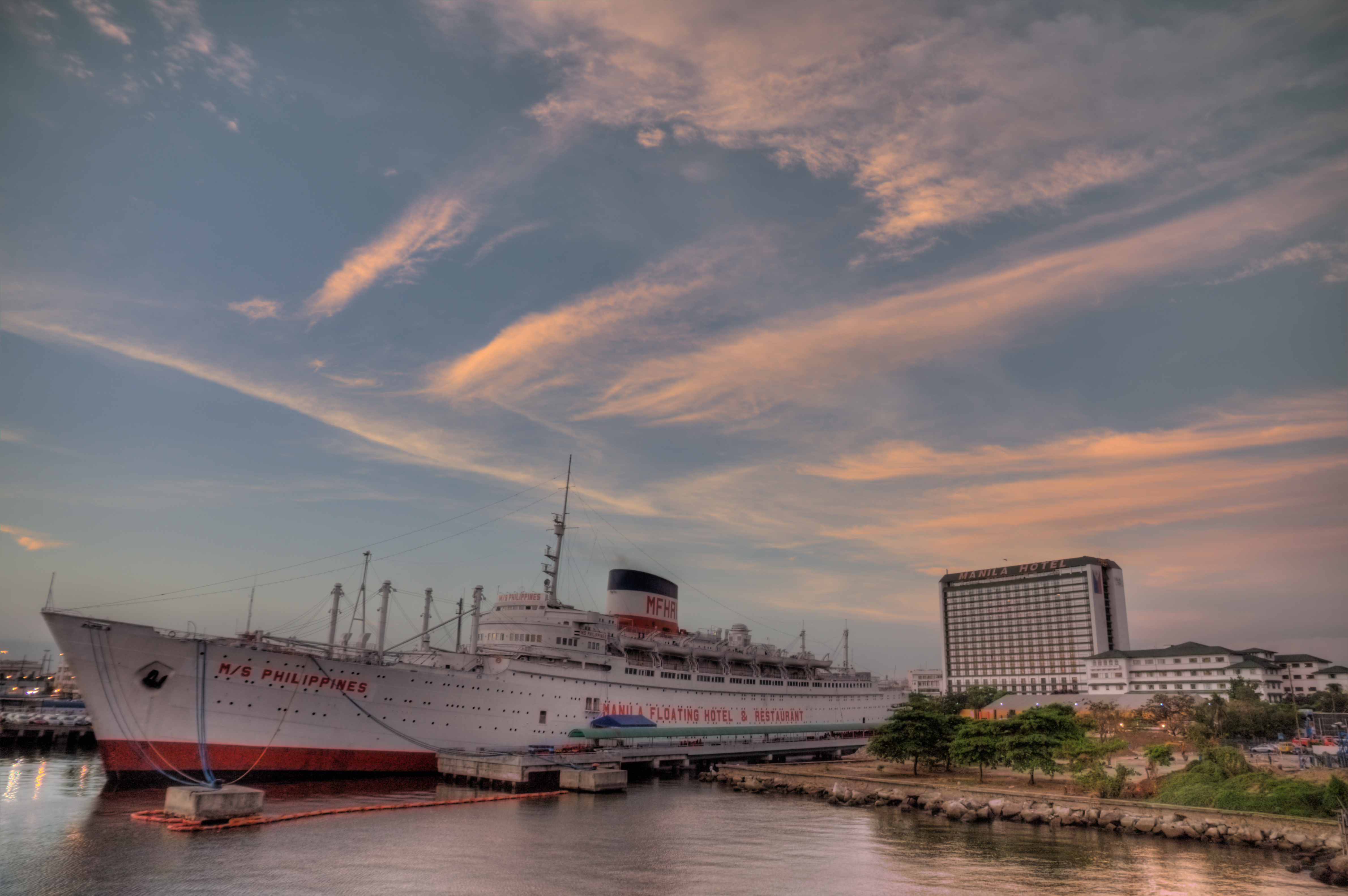 MS Phillippines, floating hotel and restaurant owned by Manila Hotel. HDR during late evening light